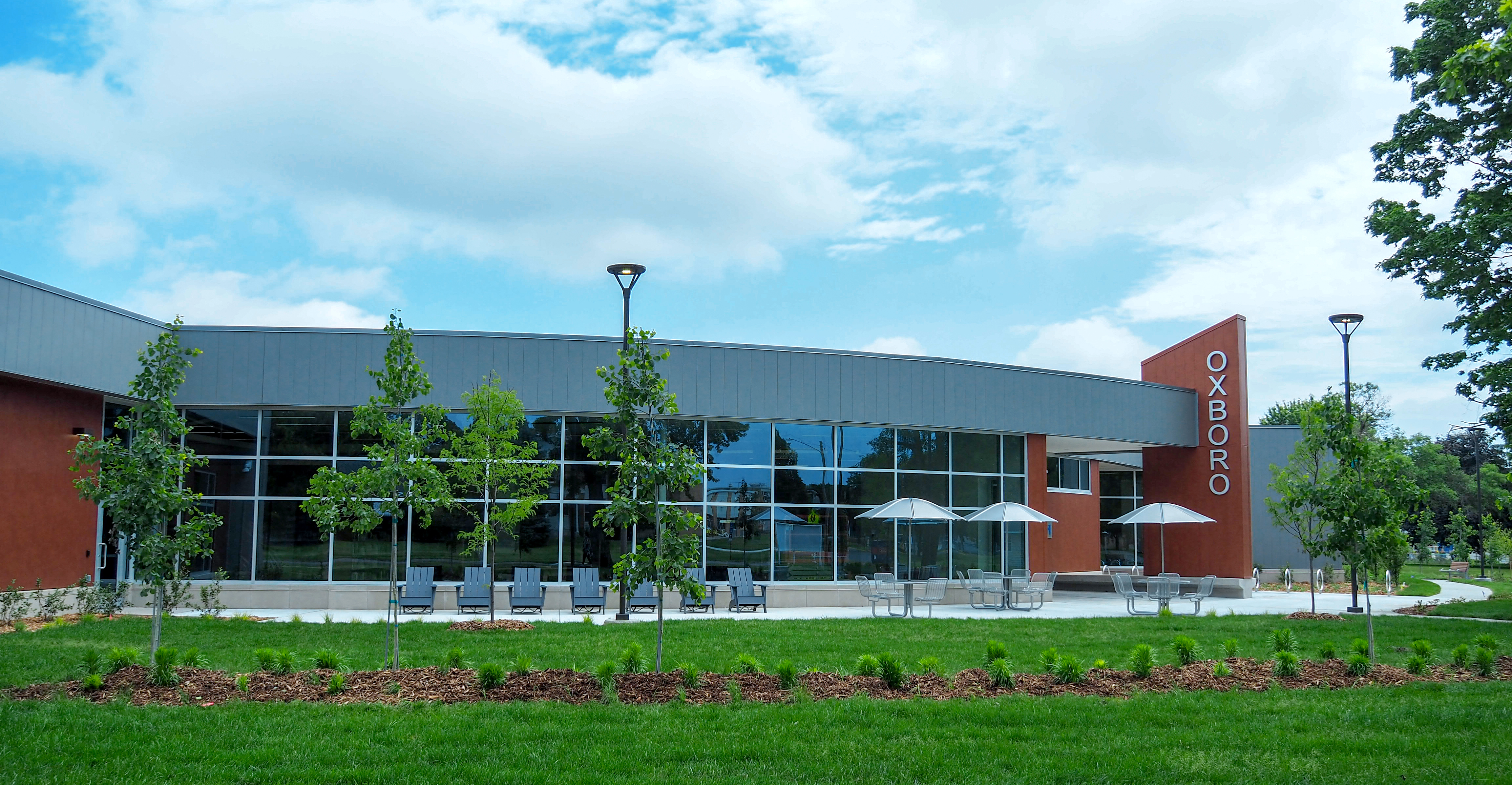 Photography of Oxboro Library after its 2019 renovation.